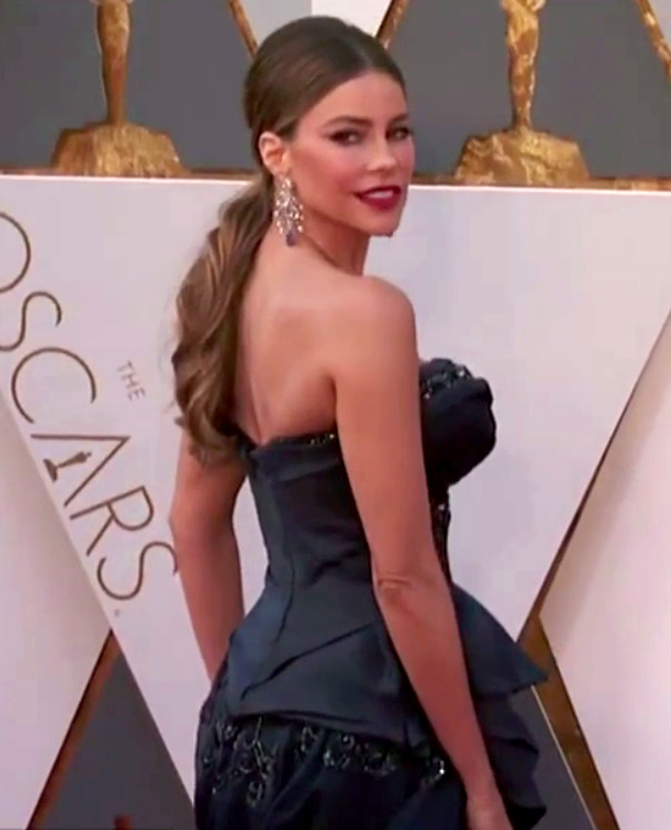 Sofía Vergara at 2016 Oscars Red Carpet